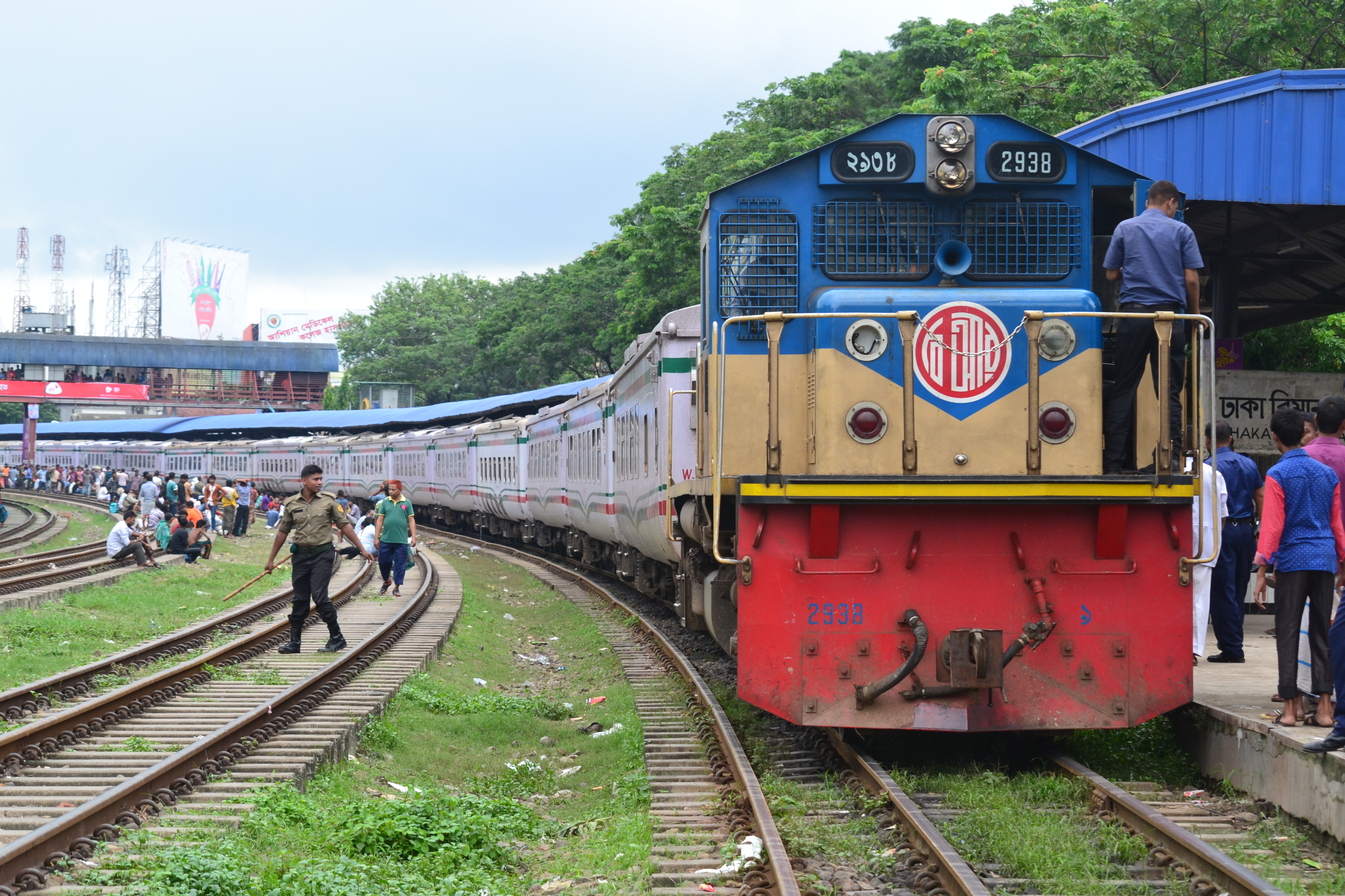 Subarna Express with BR Loco 2938 at Dhaka Airport rs.